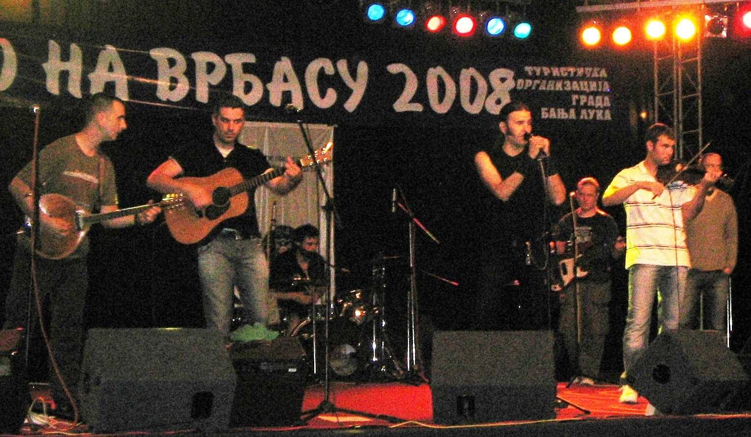 Orthodox_Celts in Banja Luka.